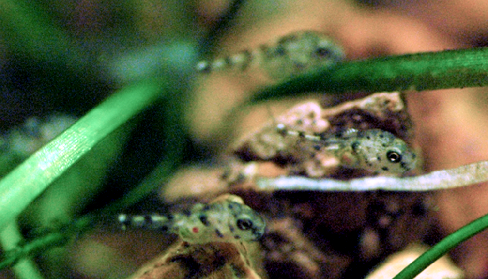 0-2 days old